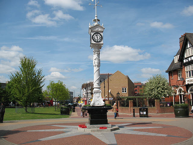 Mitcham clock tower